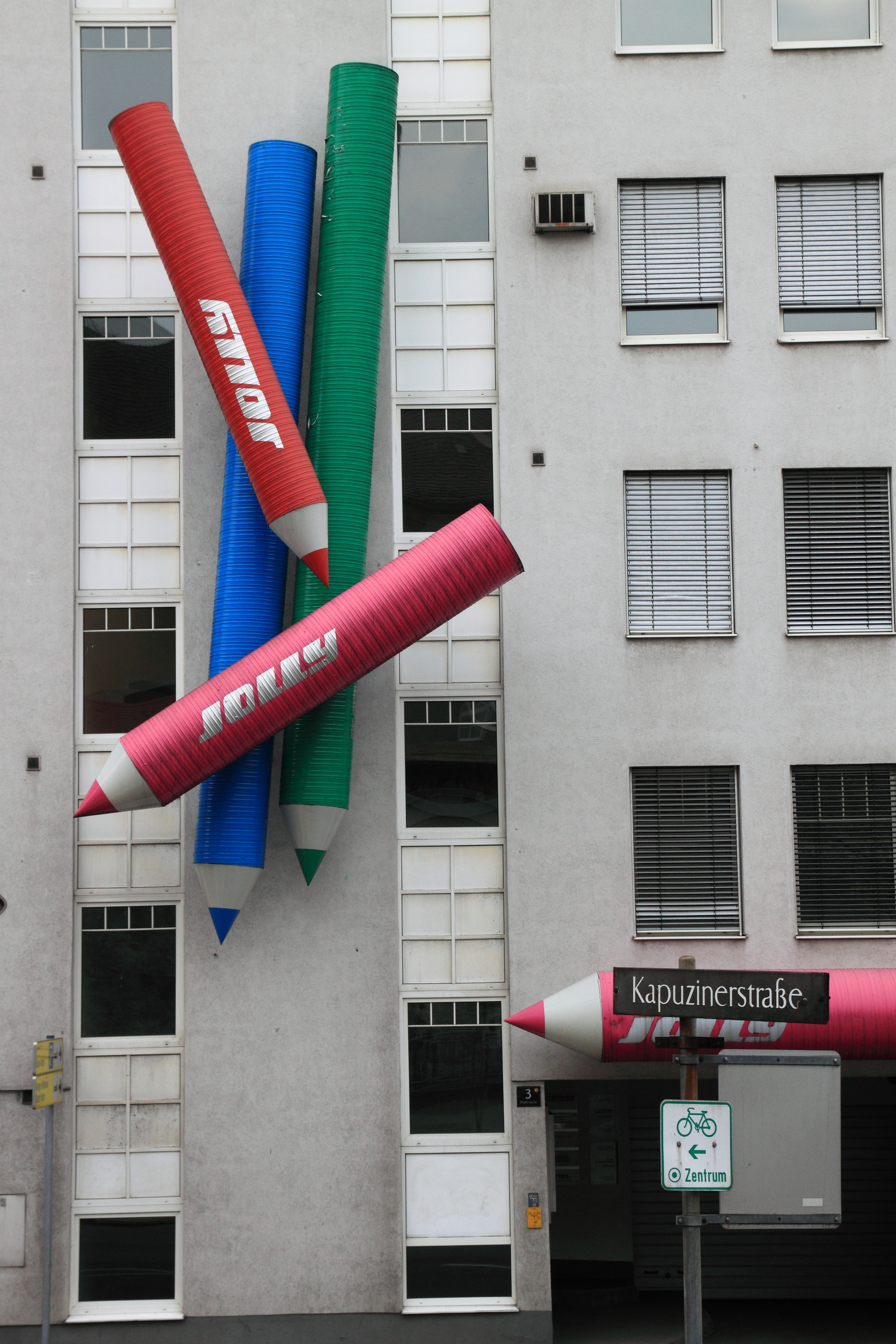 Giant pencils as an advertisment for a pencil brand.